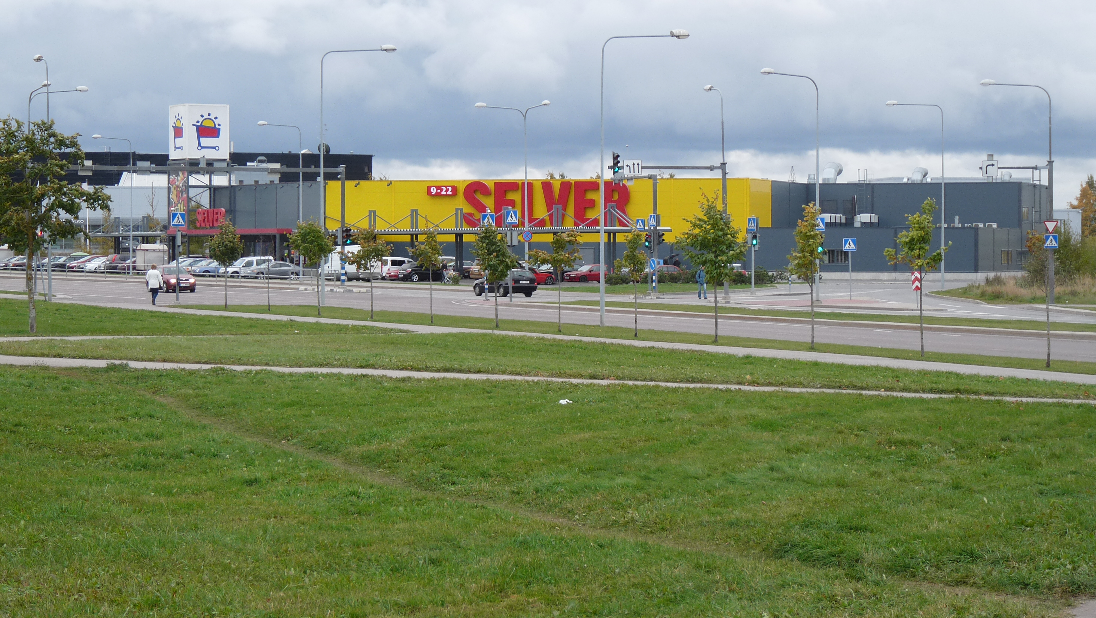 Mustakivi Selver in Tallinn.